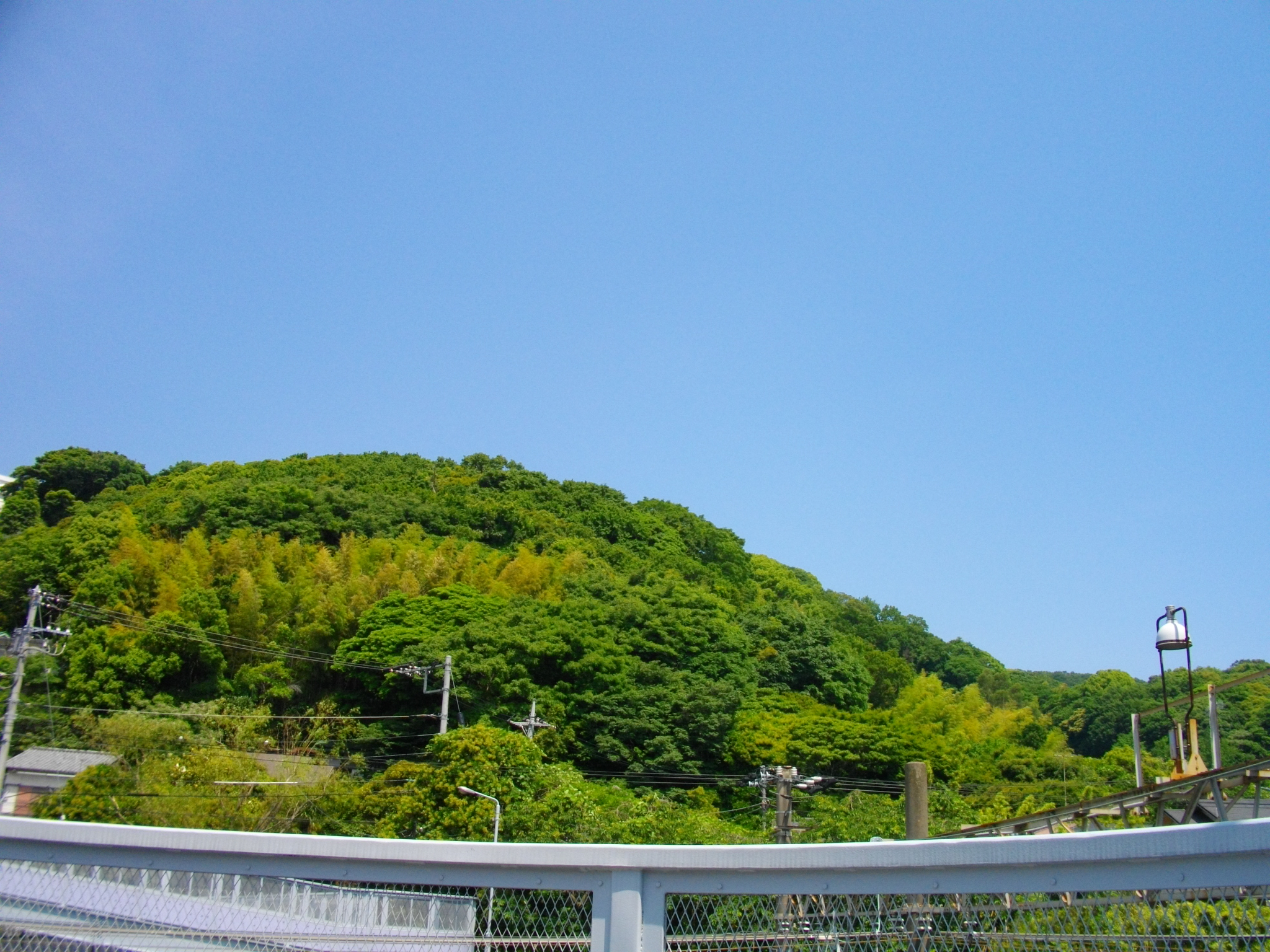 Sakata-yama